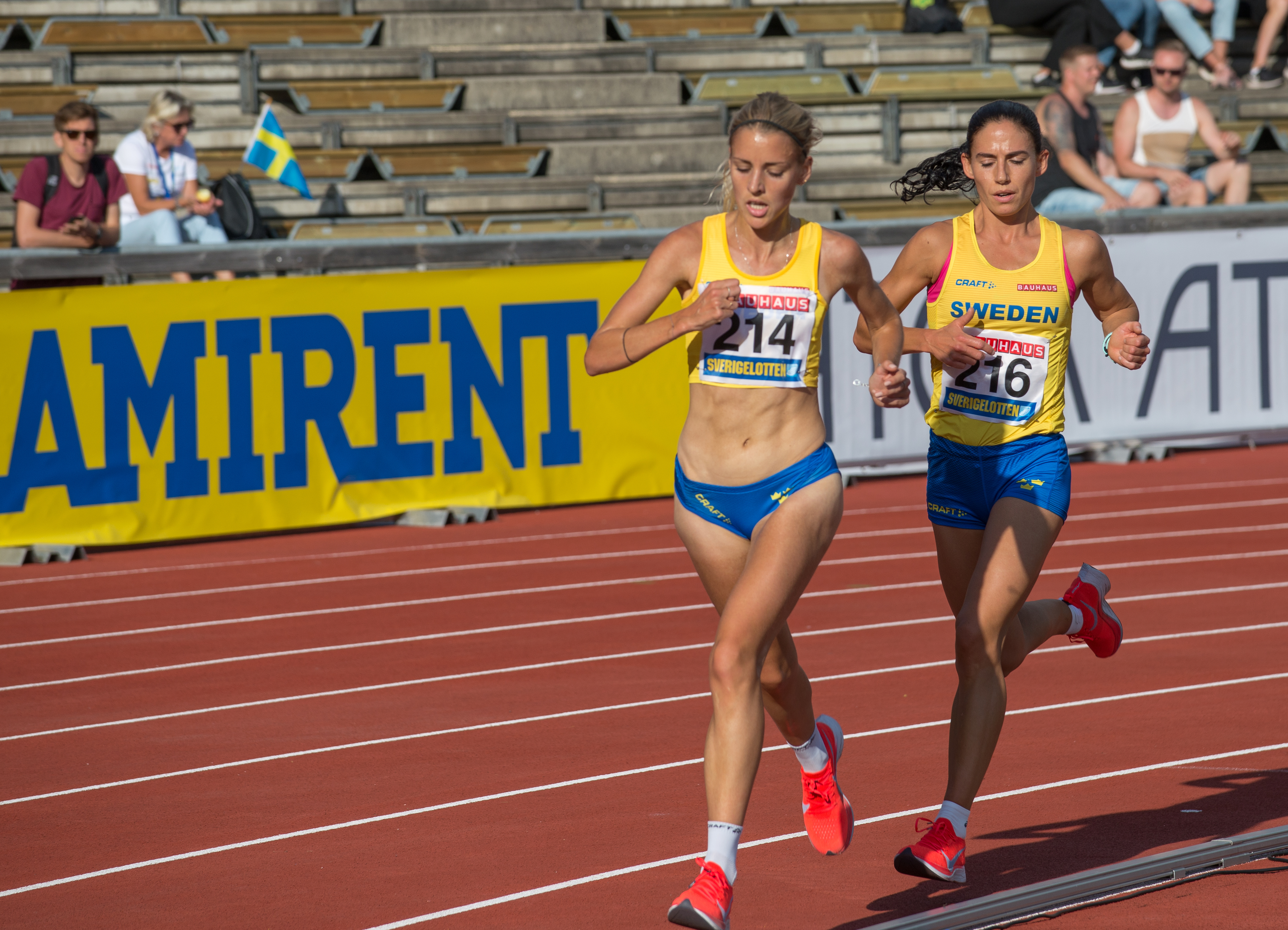 Johanna Eriksson (216), Cecilia Norrbom during the Finland-Sweden athletics international 2019 at the Stockholm Stadium in August 2019.